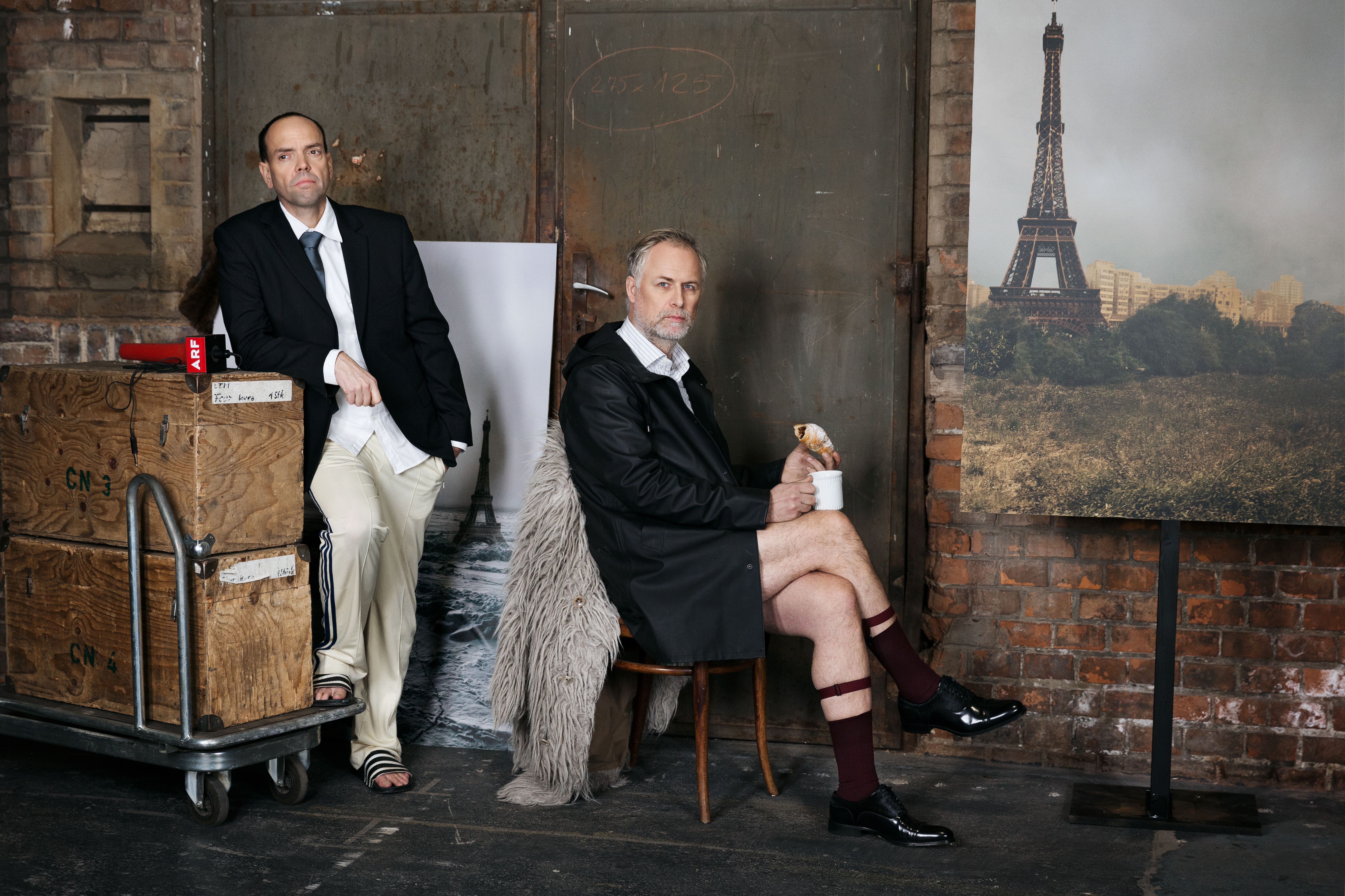 Press photo of the Austrian comedy group maschek for their show "FAKE! In Wahrheit falsch" - Robert Stachel (standing) und Peter Hörmanseder (sitting).